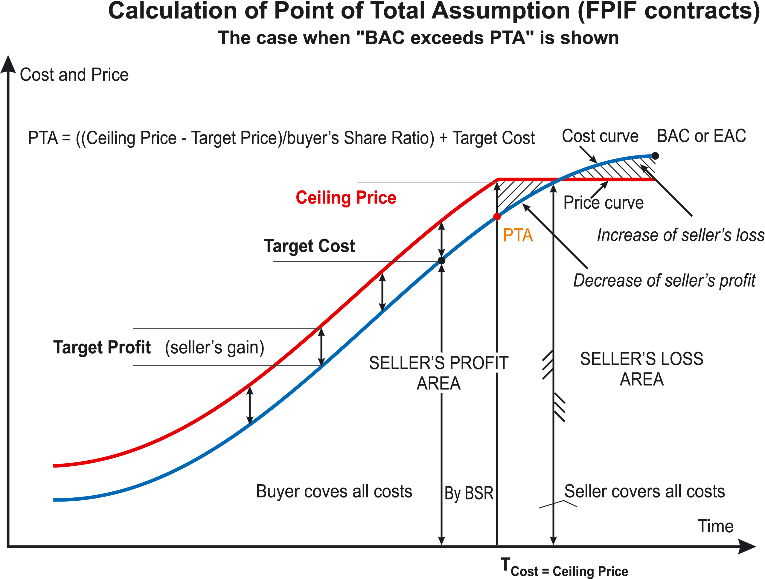 The picture describes in visual form what is Point of Total Assumption (PTA), a term of Fixed price incentive fee (FPIF) contract and its relation to Budget at complete (BAC) or Estimate at Complete (EAC) of a project